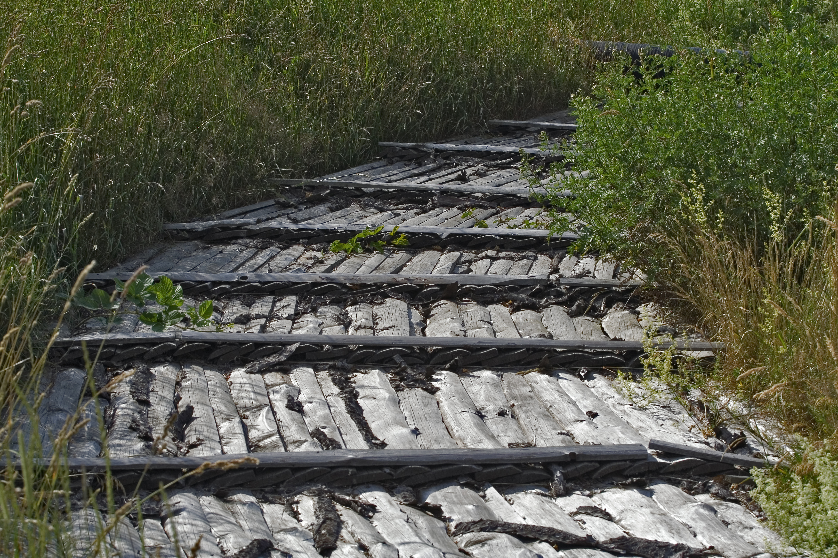 Kunstgraben (channel made for technical purposes in the Saxon mining region Freiberg, Brand-Erbisdorf, Zug)